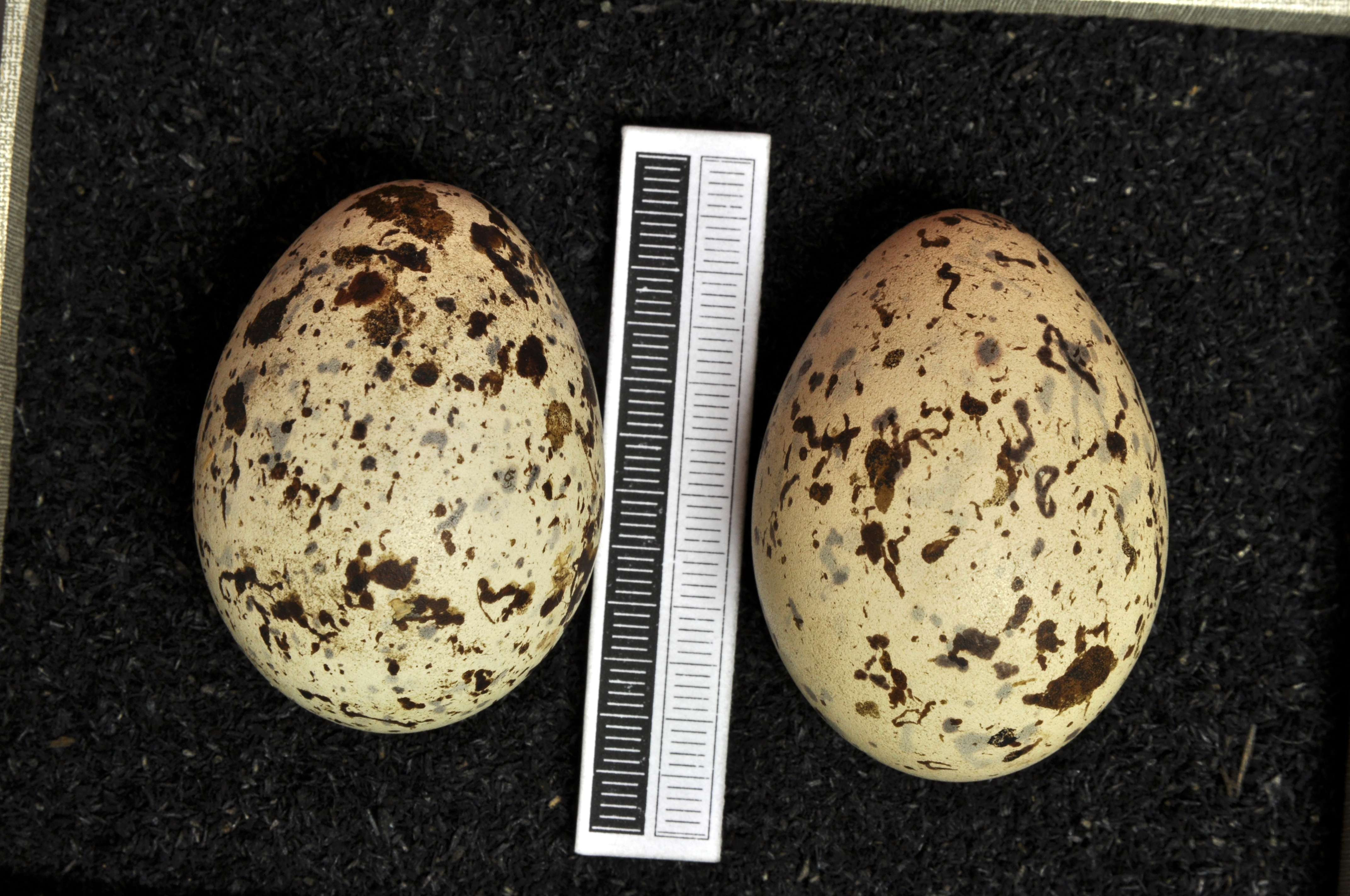 Mediterranean gull Larus melanocephalus , egg, Coll. Museum Wiesbaden